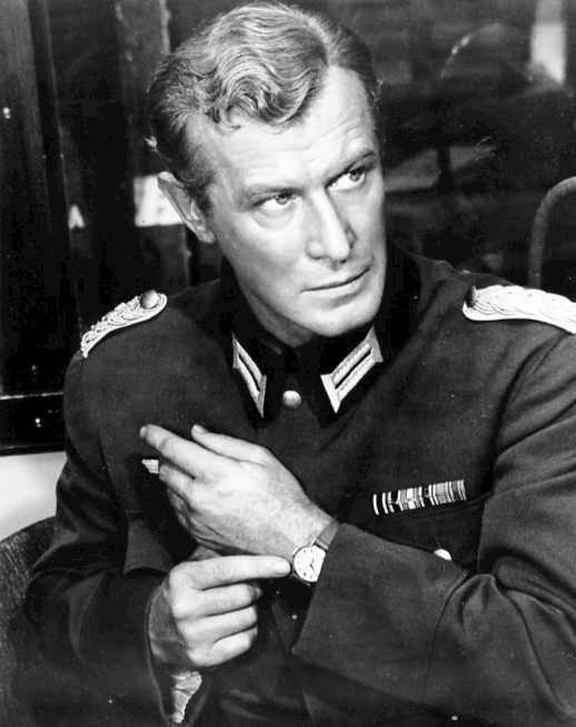 Photo of Edward Mulhare from the motion picture "Von Ryan's Express". The item has no copyright markings on it as can be seen in the links above.